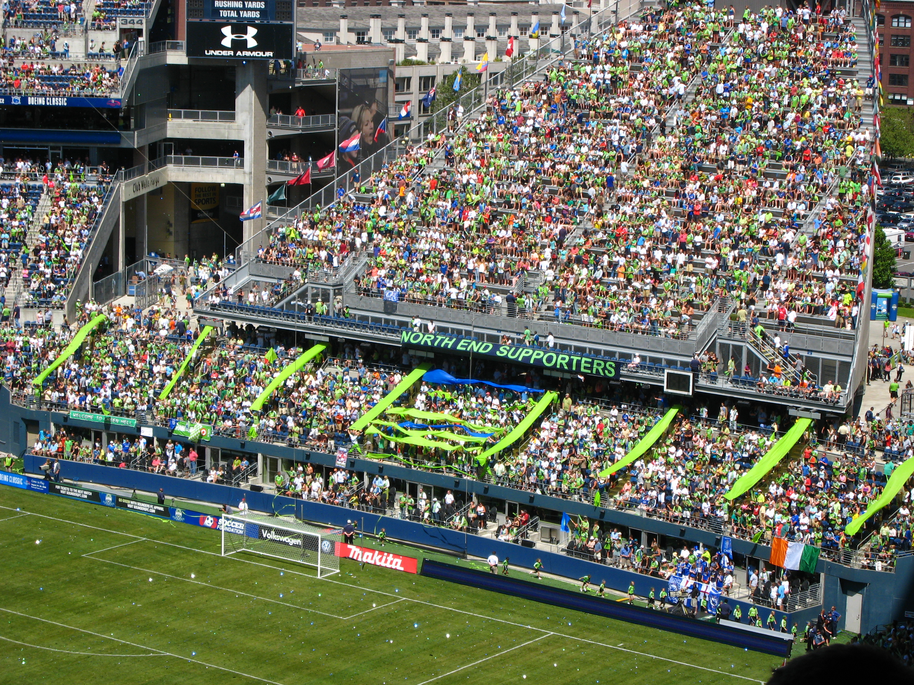 Seattle Sounders vs. Chelsea northend TIFO